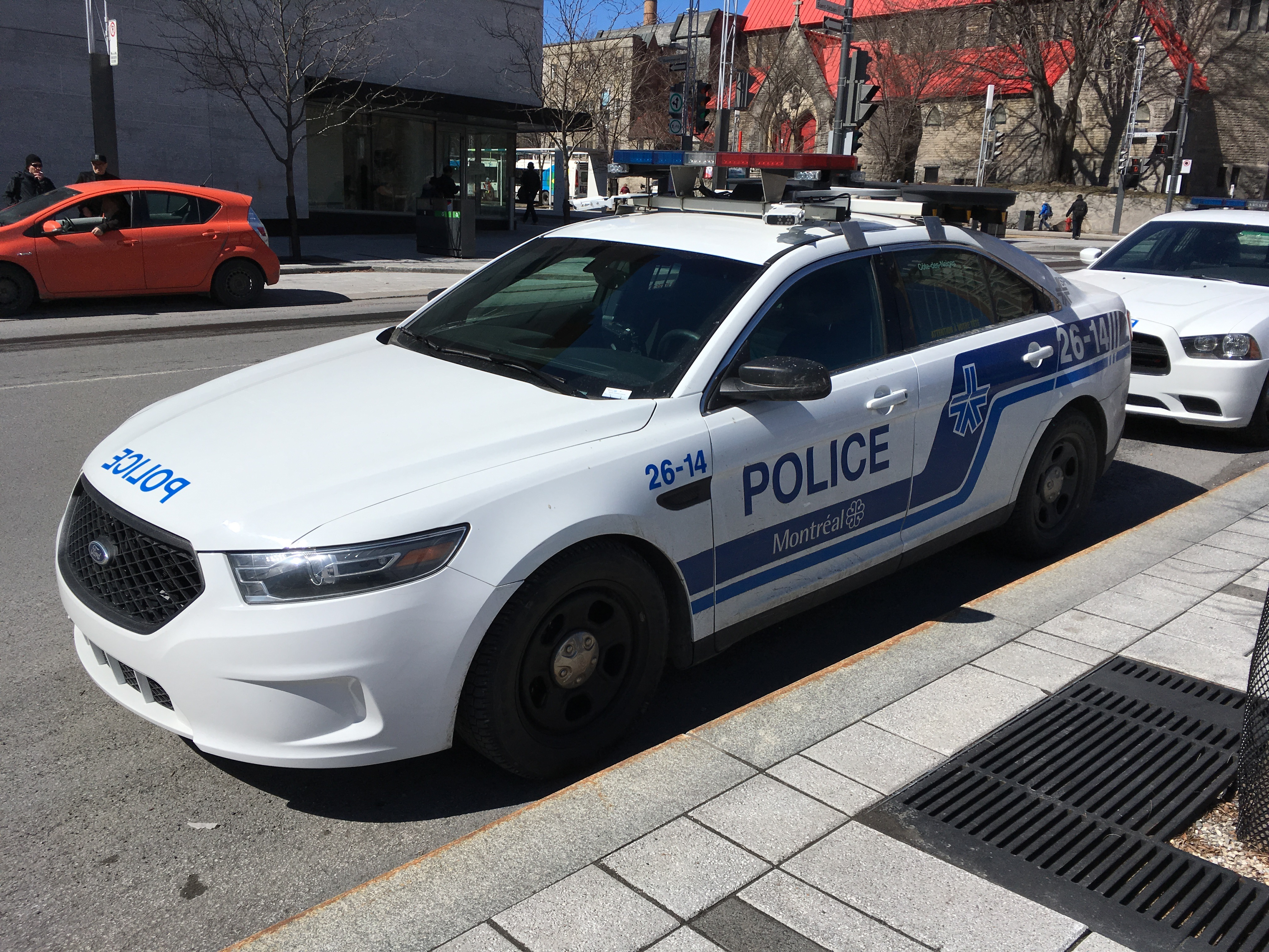 Ford Taurus Interceptor from the Montreal Police Department.